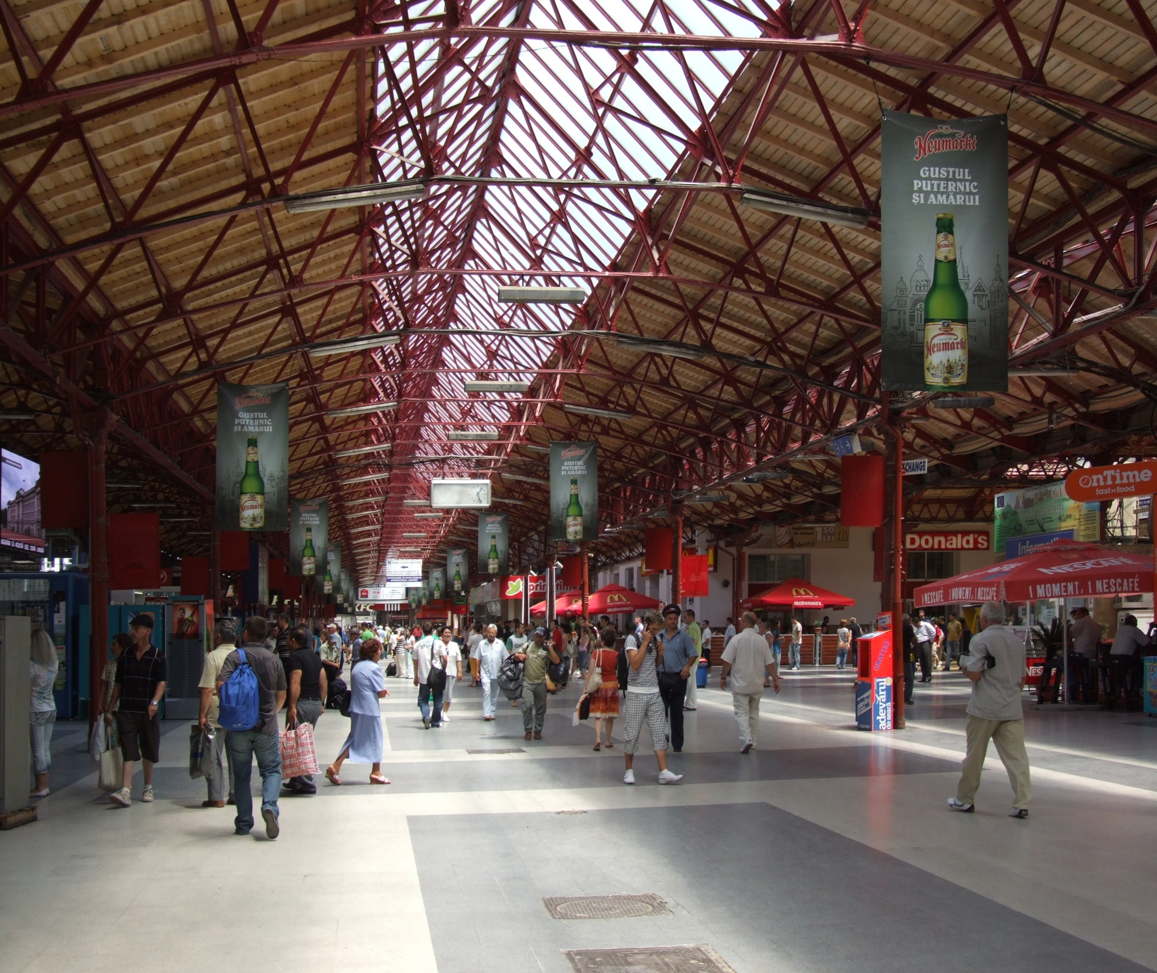 Gara de Nord, Bucharest - shopping arcade